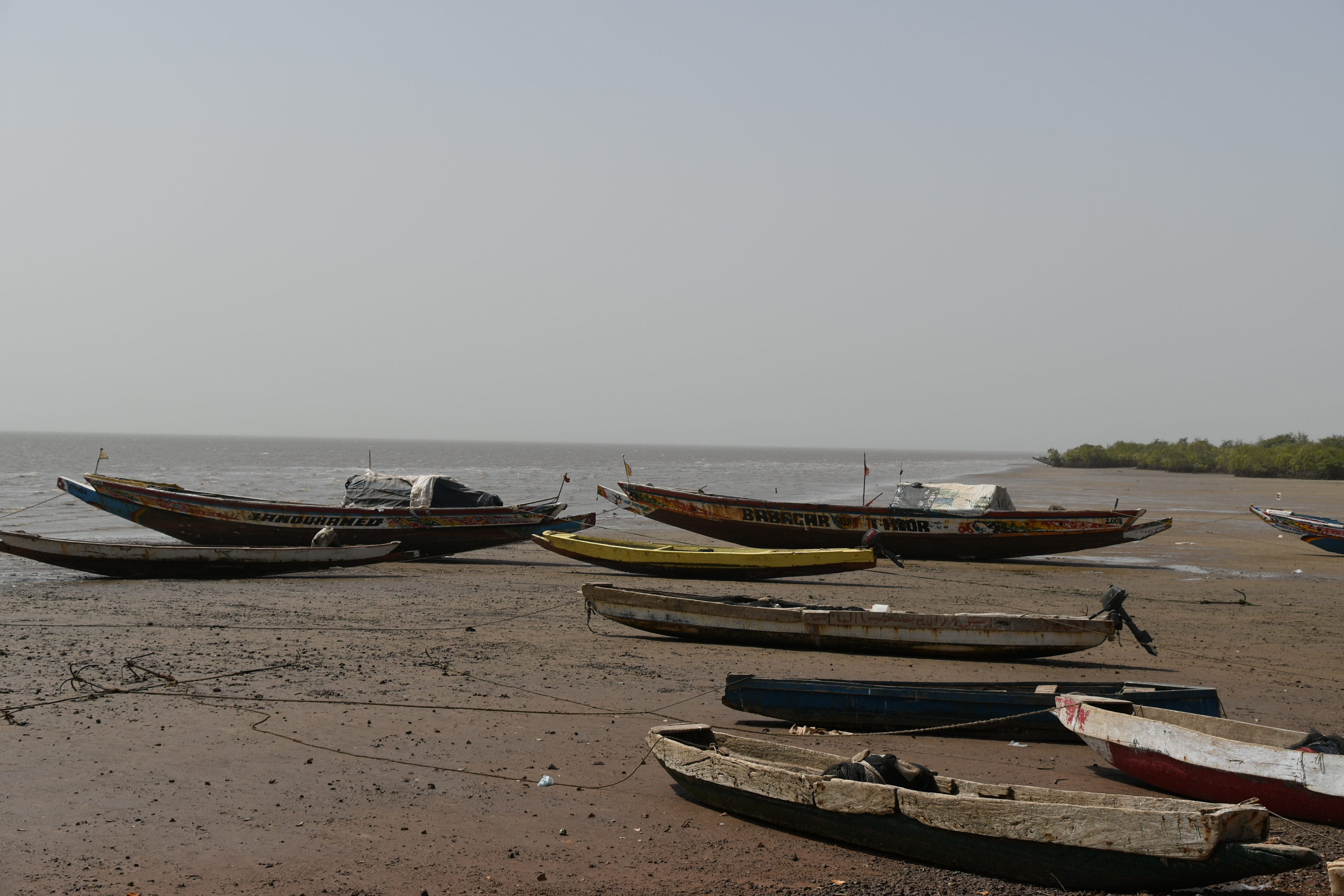 These small pirogues are used all across West Africa for fishing, mostly at sea. These along the riverbank in The Gambia are close enough to the wide mouth of the River Gambia to bring in all kinds of small saltwater fishes, many of which are dried or smoked here for preservation. This is an image with the theme "Africa on the Move or Transport" from: The Gambia